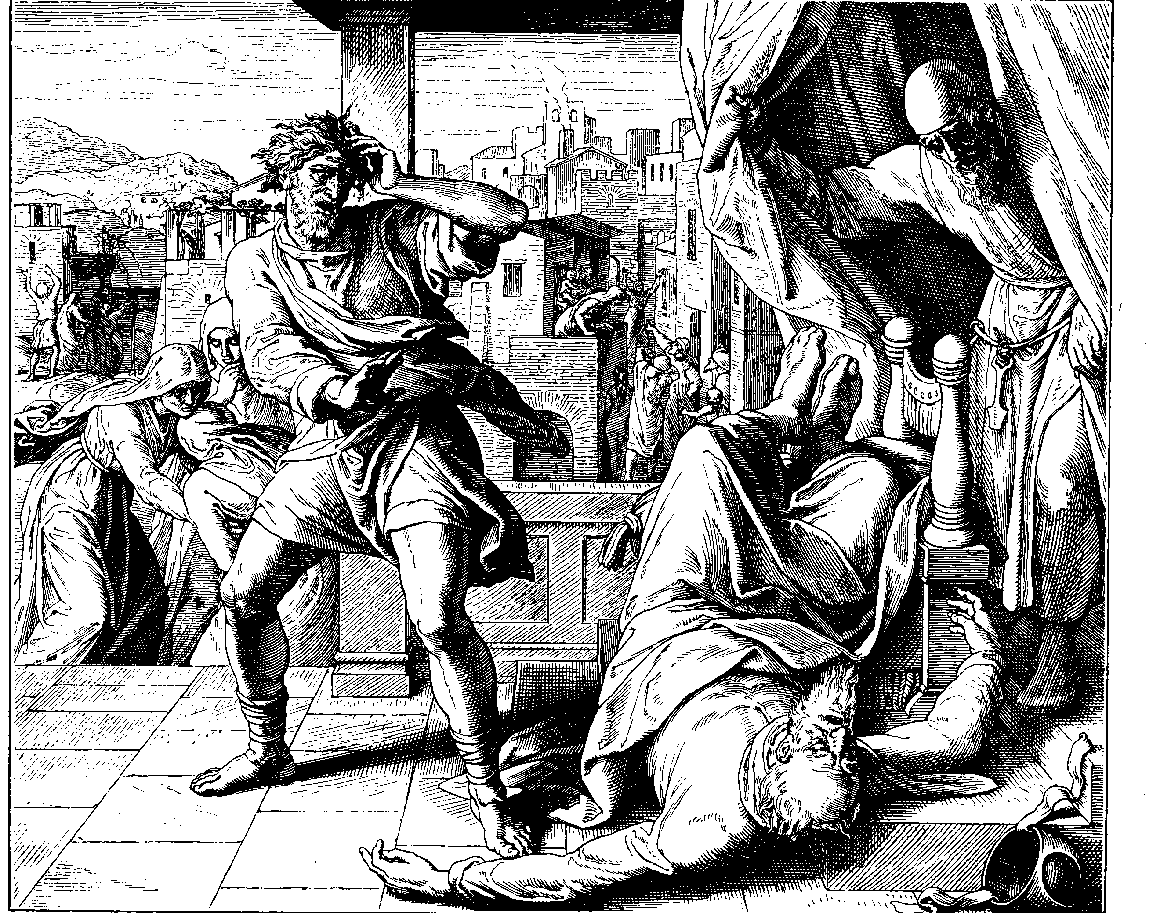 Woodcut for "Die Bibel in Bildern", 1860.